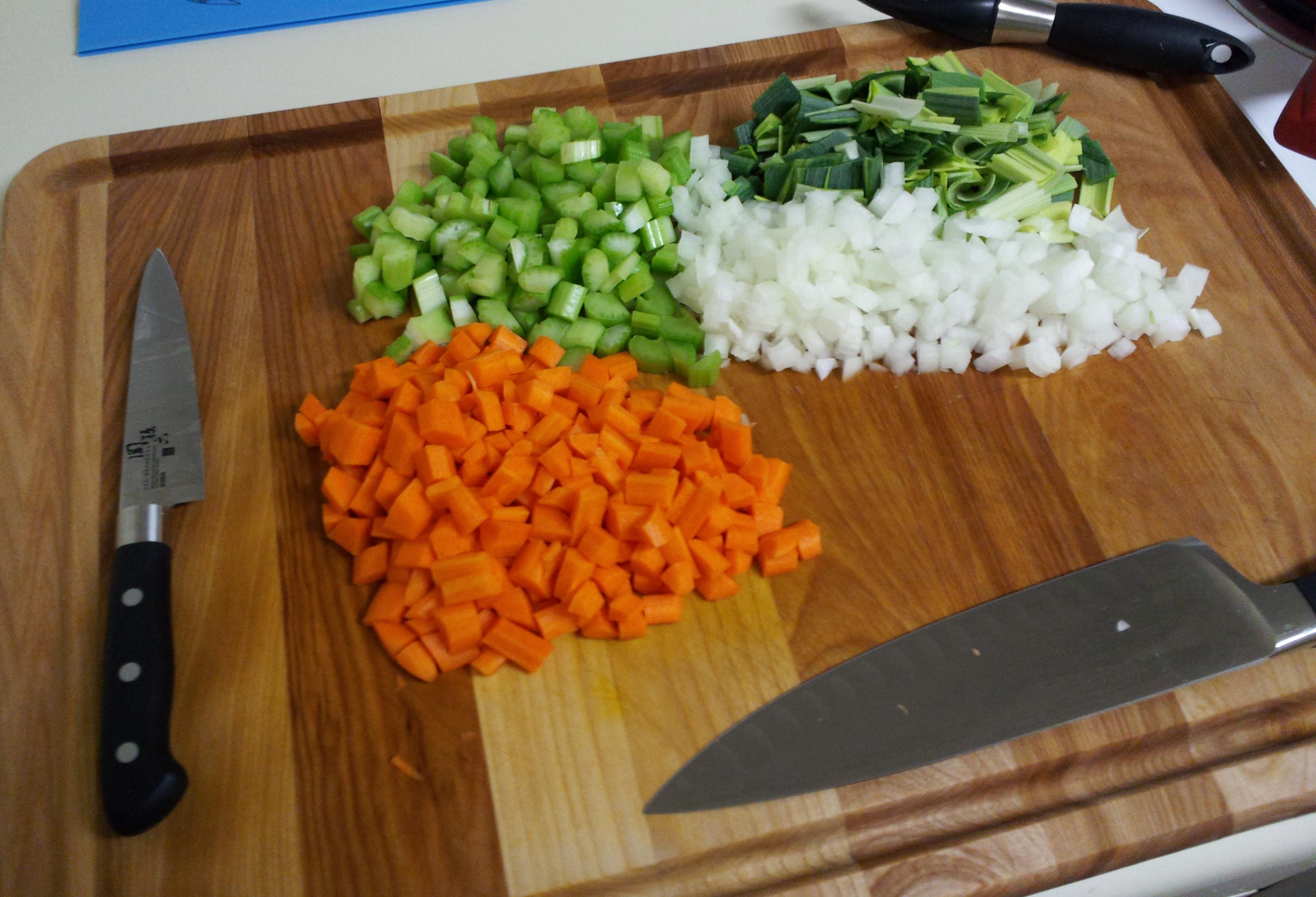 Prepared Mirepoix components. It has carrots, onions, leeks, and celery. The pieces are approximately 5-7 mm in length. This particular batch was used to prepare a beef stock.